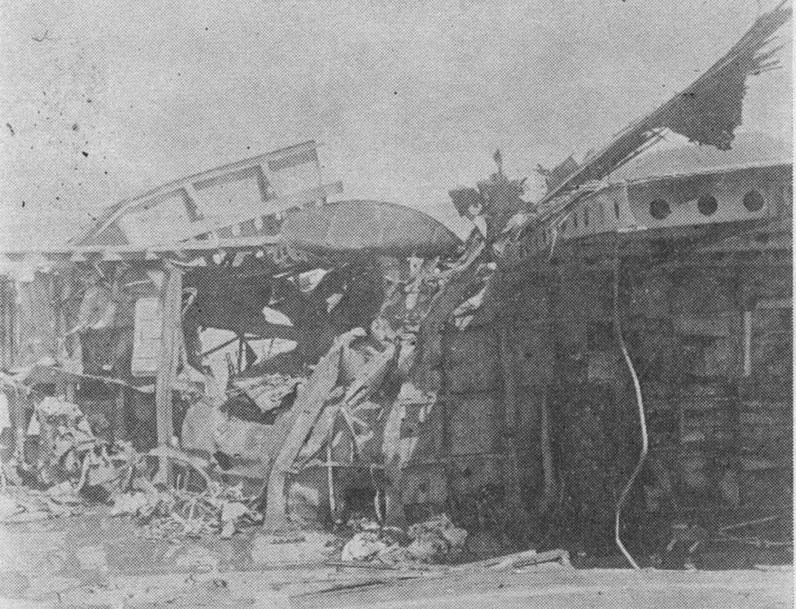 Damage to the Imperial Japanese Navy aircraft carrier Shokaku after the ship was hit by American carrier aircraft bombs during the Battle of the Santa Cruz Islands. View of damage to flight-deck on starboard side underneath, the hangar side wall.